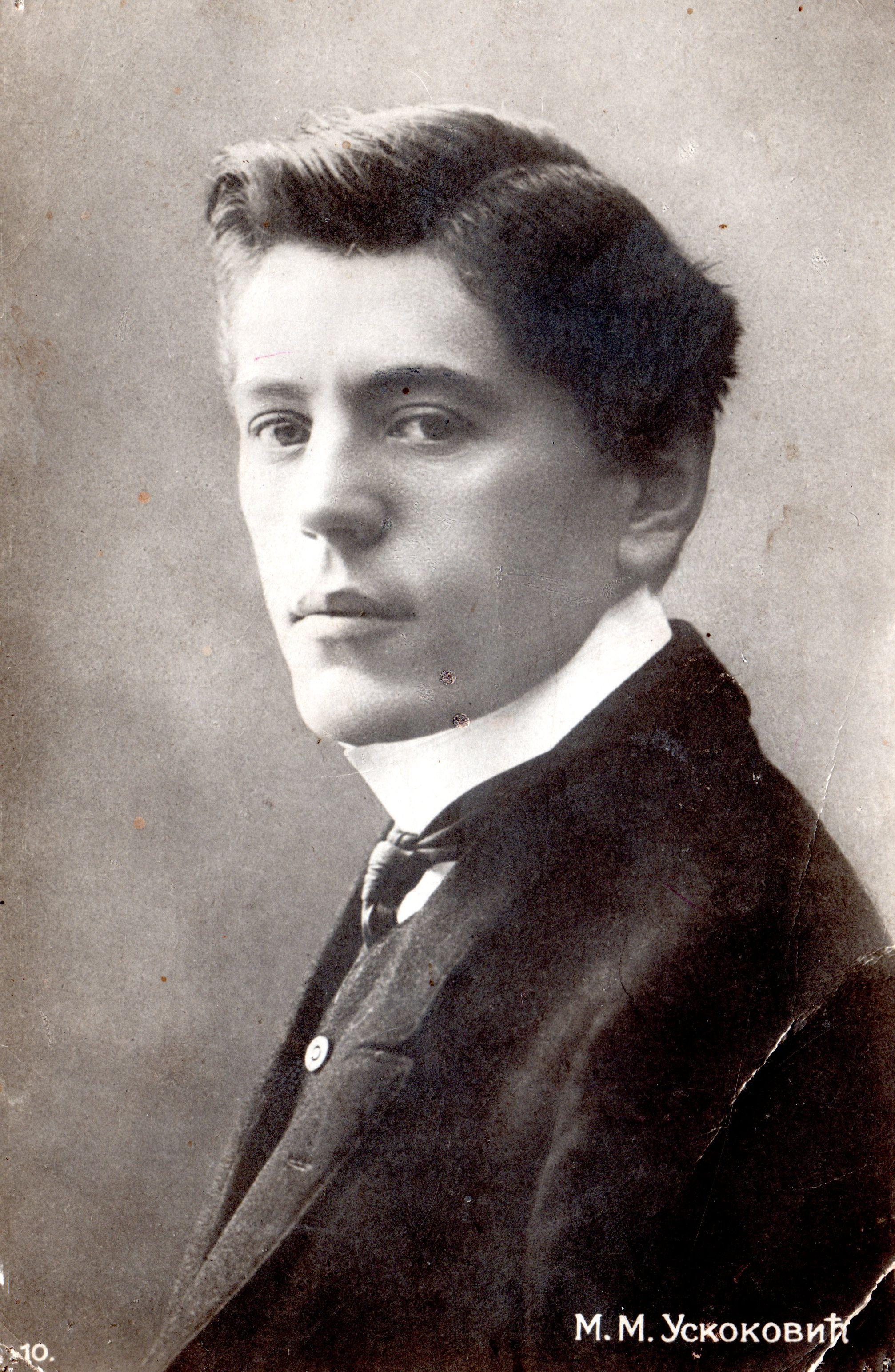 Portrait Milutin Uskokovic